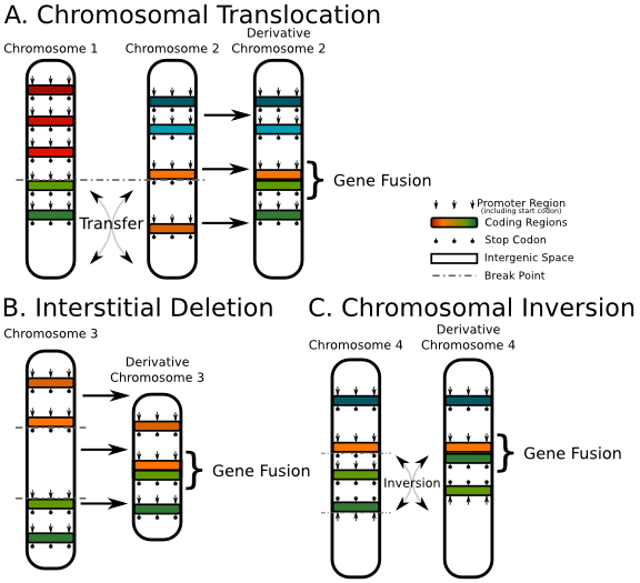 An 'cartoon' diagram showing the three main ways a gene fusion can occur on a chromosome